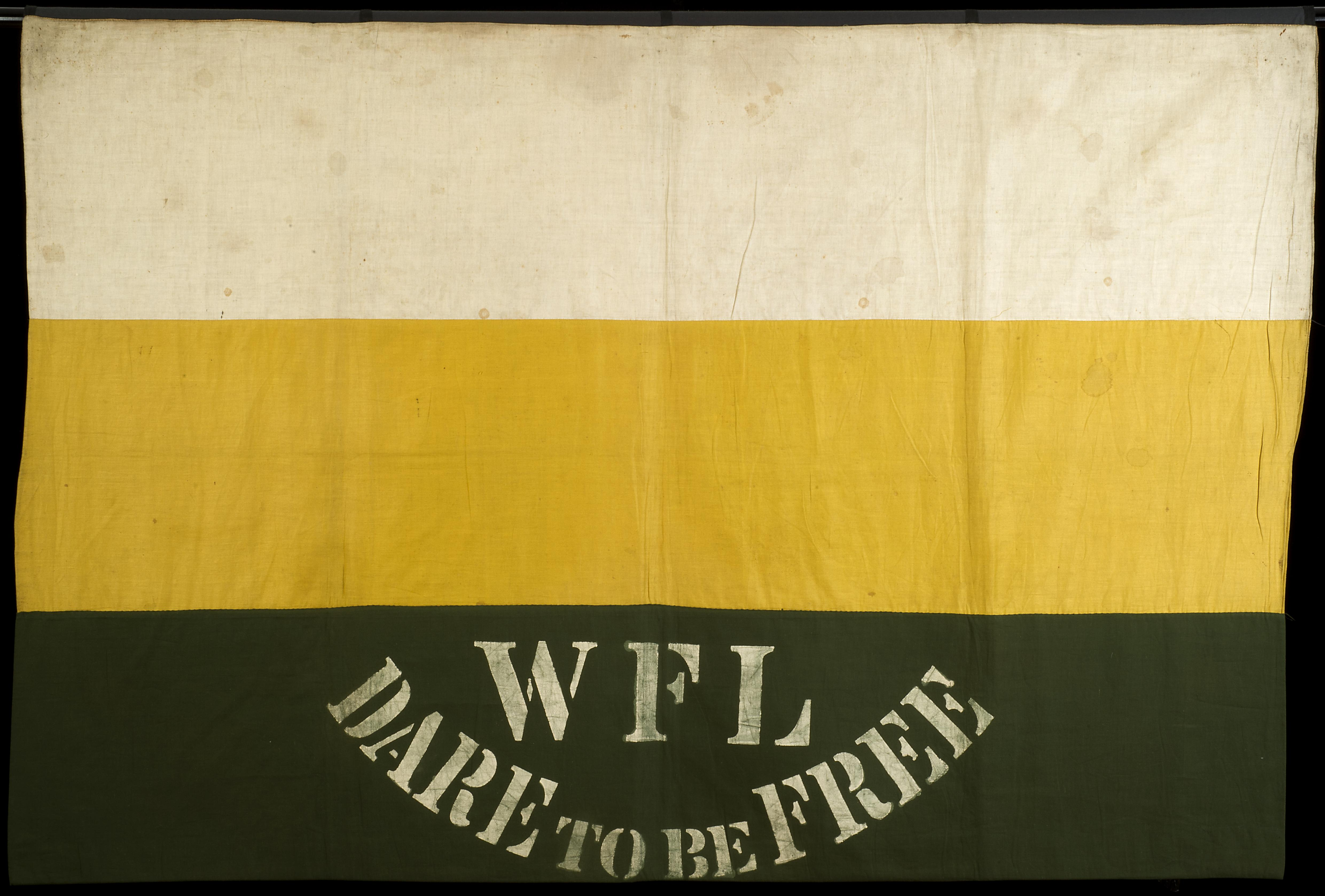 TWL/1998/05